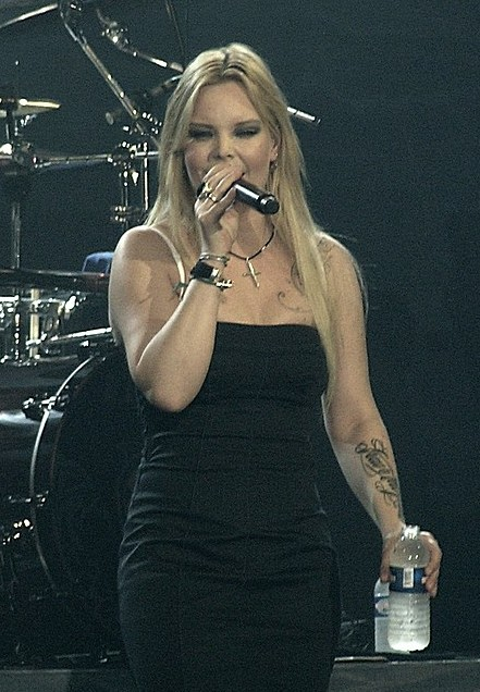 Anette Olzon with Nightwish in Zagreb, Croatia.